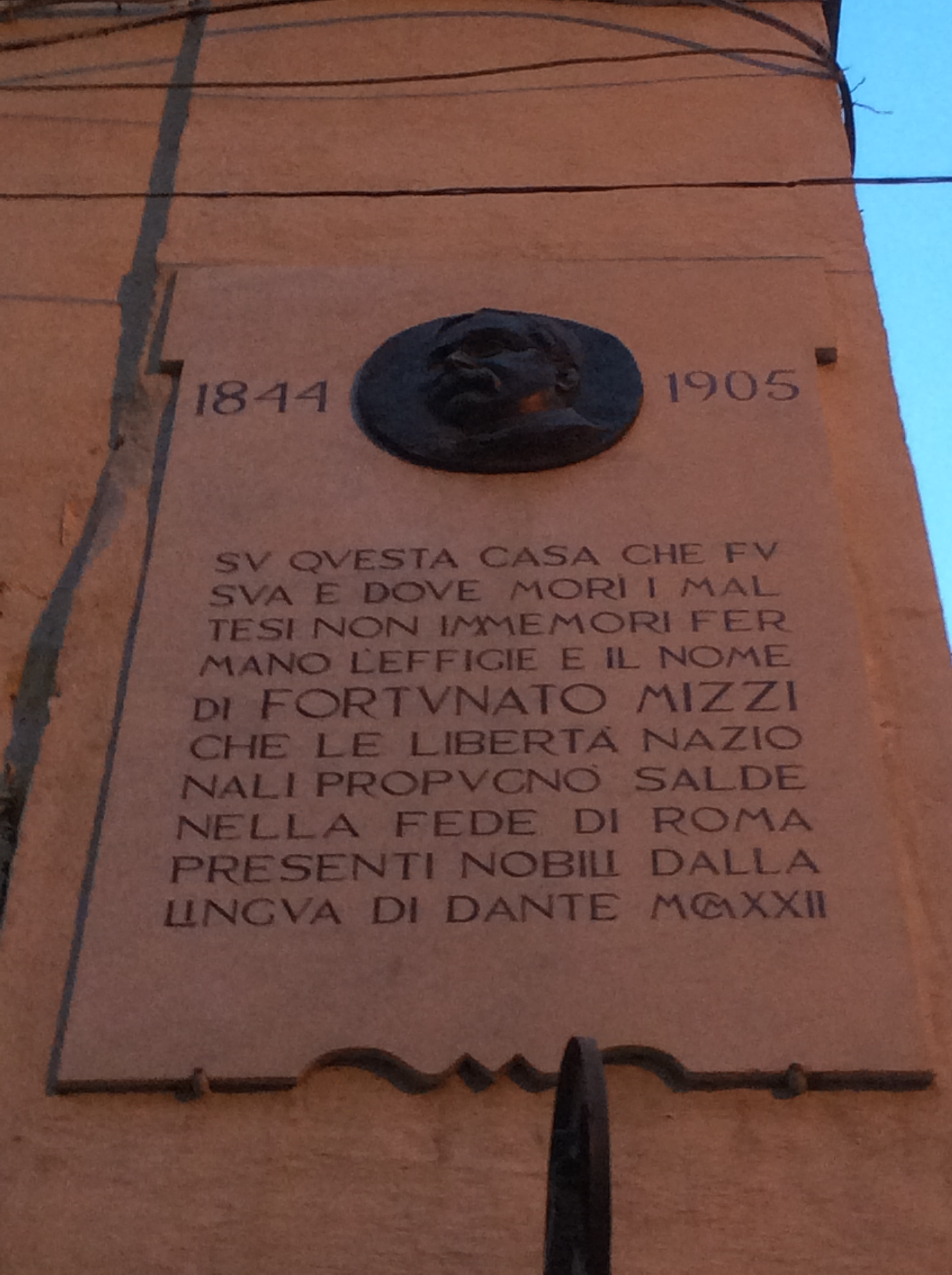 Casa Fortunato Mizzi